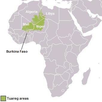 Tuareg areas in Africa